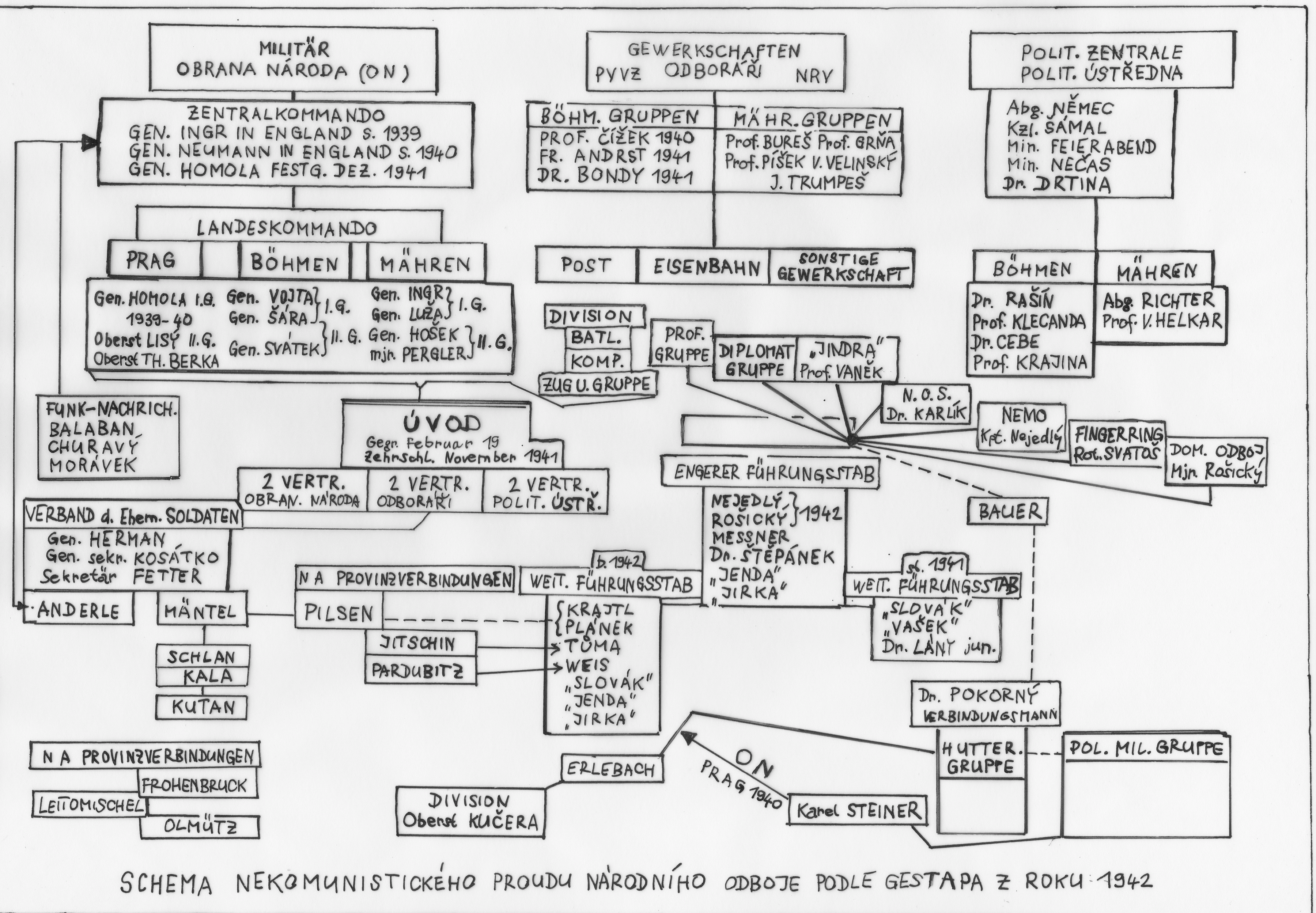 The scheme of the non-communist gruppen of the national resistance in the Protectorate of Bohemia and Moravia according to Gestapo from year 1942. Photocopy of the original graphic document was "restored" and transformed into new document by Ing. Mojmír Churavý.